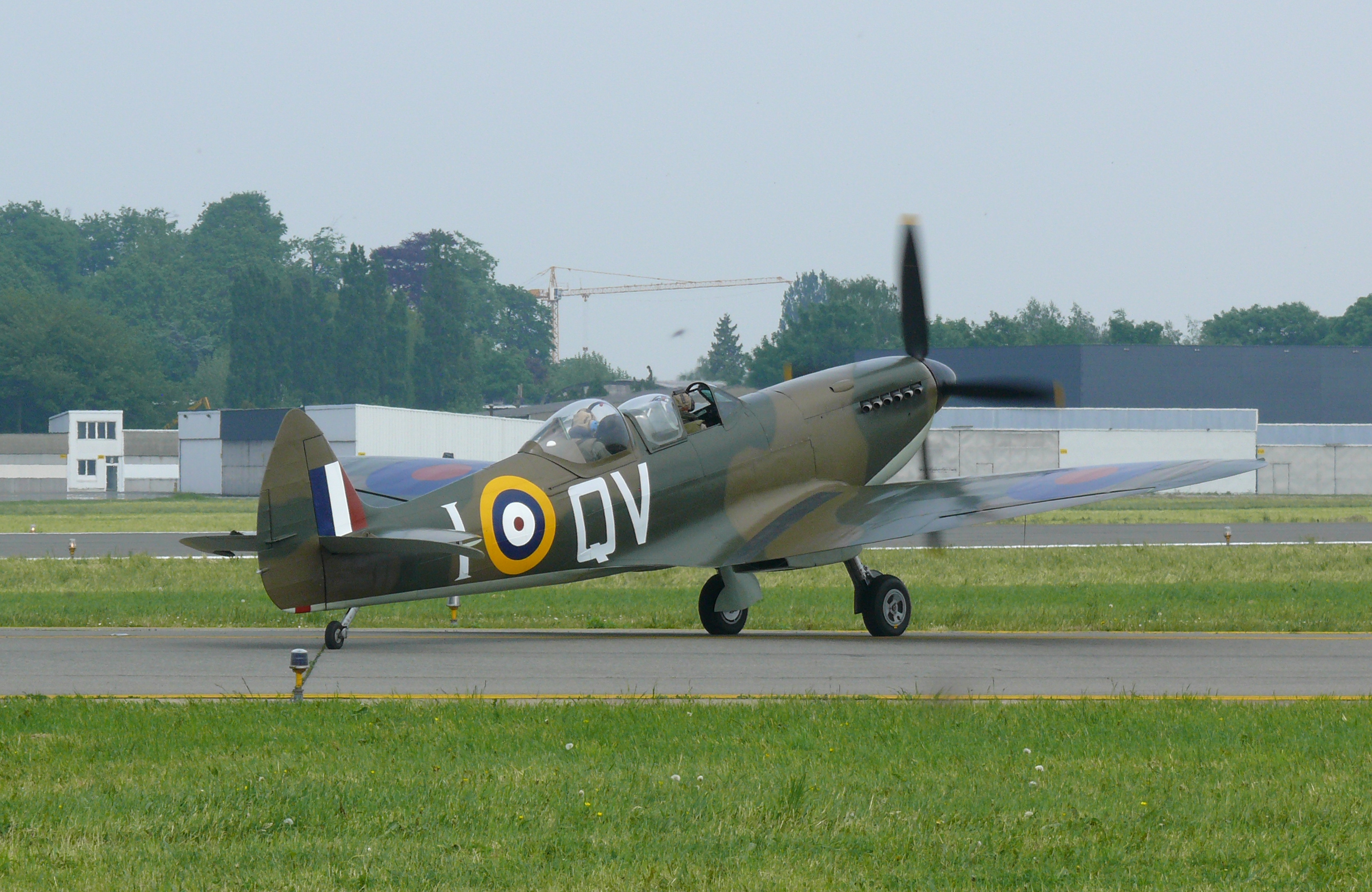 Supermarine 509 Spitfire T9C QV-I (G-CCCA) at the Stampe Fly In 2012.